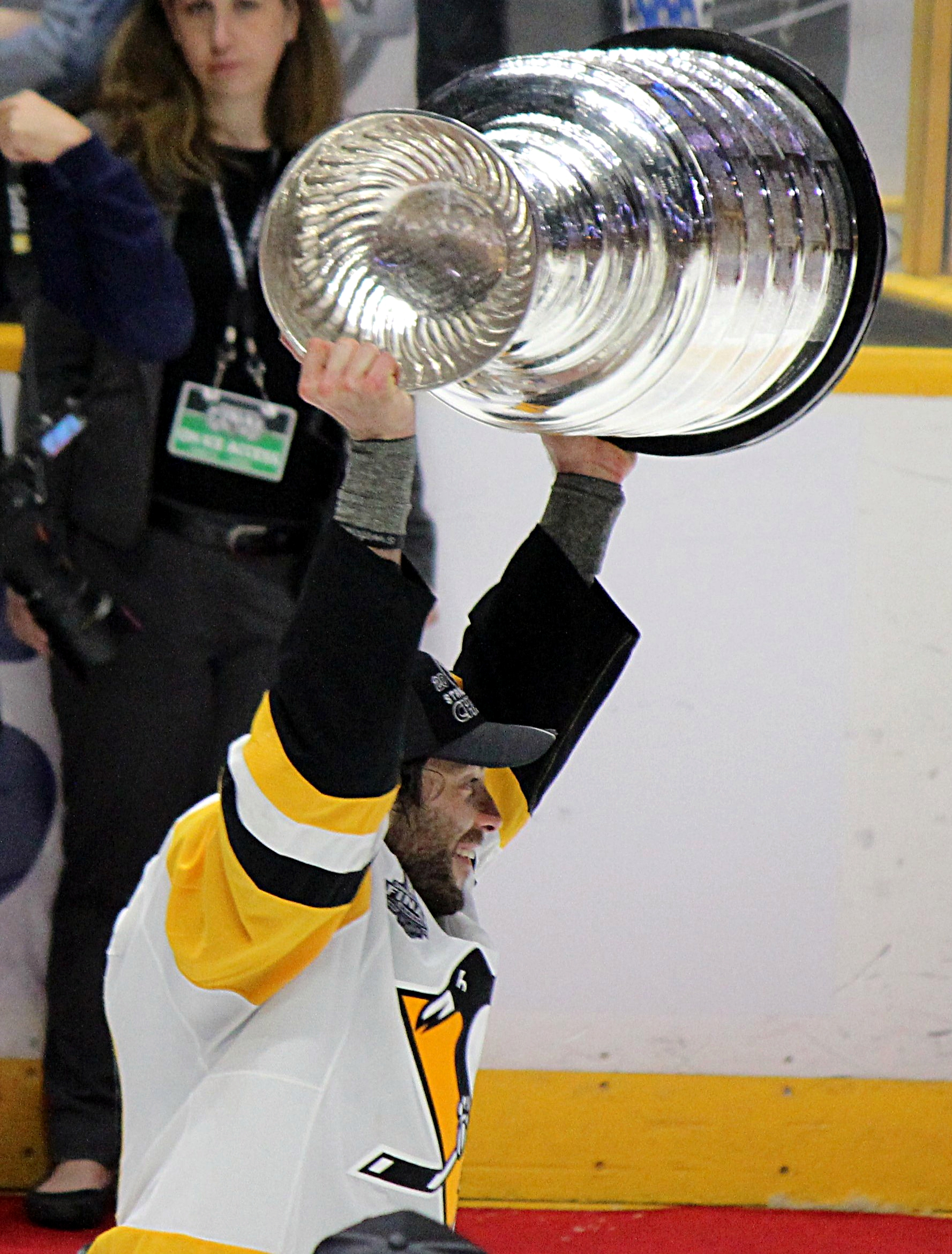 Pittsburgh Penguins center Matt Cullen raises the Stanley Cup, June 11, 2017, at Bridgestone Arena in Nashville, TN.